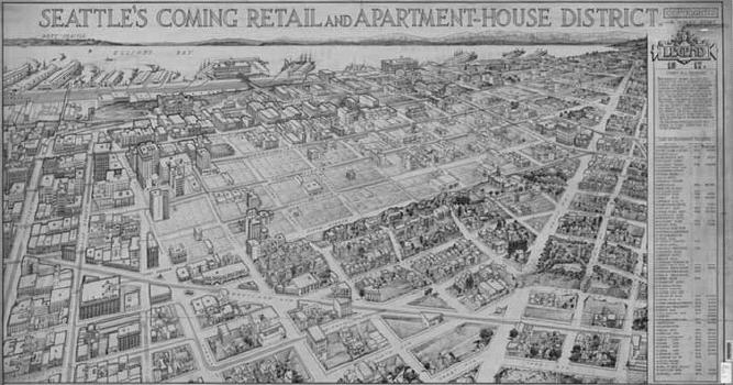 "Seattle's coming retail and apartment-house district": idealized bird's-eye view of Denny Regrade, 1917. Note that the picture shows the physical situation of the land between Denny Regrade No. 1 (which sluiced away the West half of Denny Hill) and Denny Regrade No. 2 (which shoveled away the east half, visible in foreground of this image). See Regrading in Seattle. The major street running roughly horizontally in foreground is Westlake Avenue. The major street headed into the distance at right is Denny Way. Fifth Avenue marked the line between Denny Regrade No. 1 and Denny Regrade No. 2. Visible near left, on the west side of 5th just after it crosses Westlake going north, is the triangular Seattle Times building (no longer home of the Times, but still there in 2007). N.B.: Westlake Avenue at that time (and into the 1980s) continued about 2 blocks farther south than it now does: this portion of the street was sacrificed to build Westlake Mall and Westlake Park. Matthew Klingle writes (Matthew Klingle (2007). Emerald City: an environmental history of Seattle. Yale University Press. ISBN 9780300116410. p. 115), "A birds'-eye map drawn by architect Dudley Stuart in 1917 proclaimed the area as 'Seattle's Coming Retail and Apartment-House District,' detailing imaginary businesses and brownstones against the scenic backdrop of the Olympic Mountains and Elliott Bay, but his map was a fantasy."